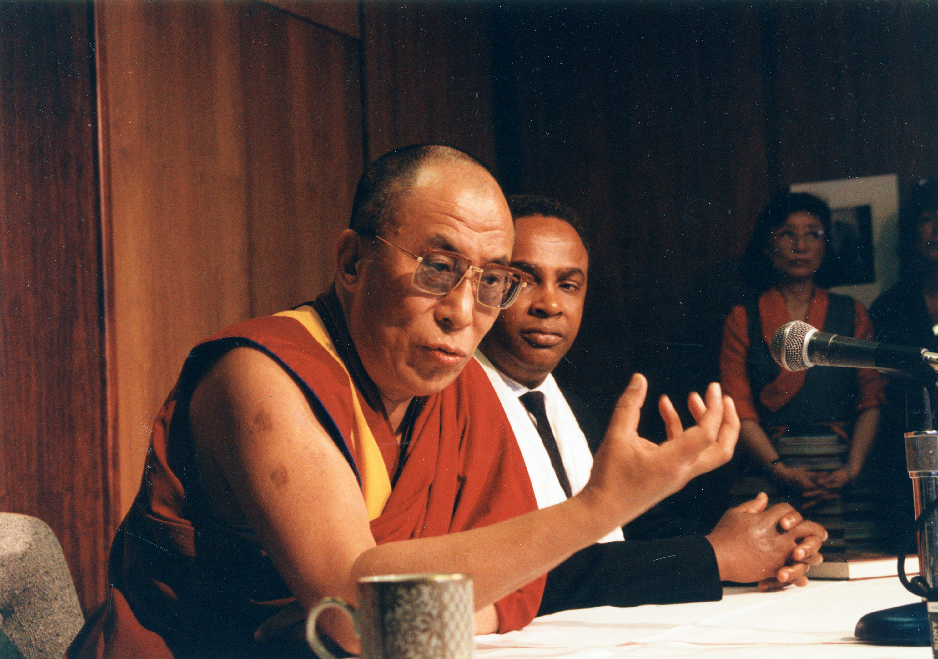 Tenzin Gyatso, 14th Dalai Lama and Seattle Mayor Norm Rice, 1993 and Item 77385, Norm Rice Photographs (Record Series 5272-07), Seattle Municipal Archives.